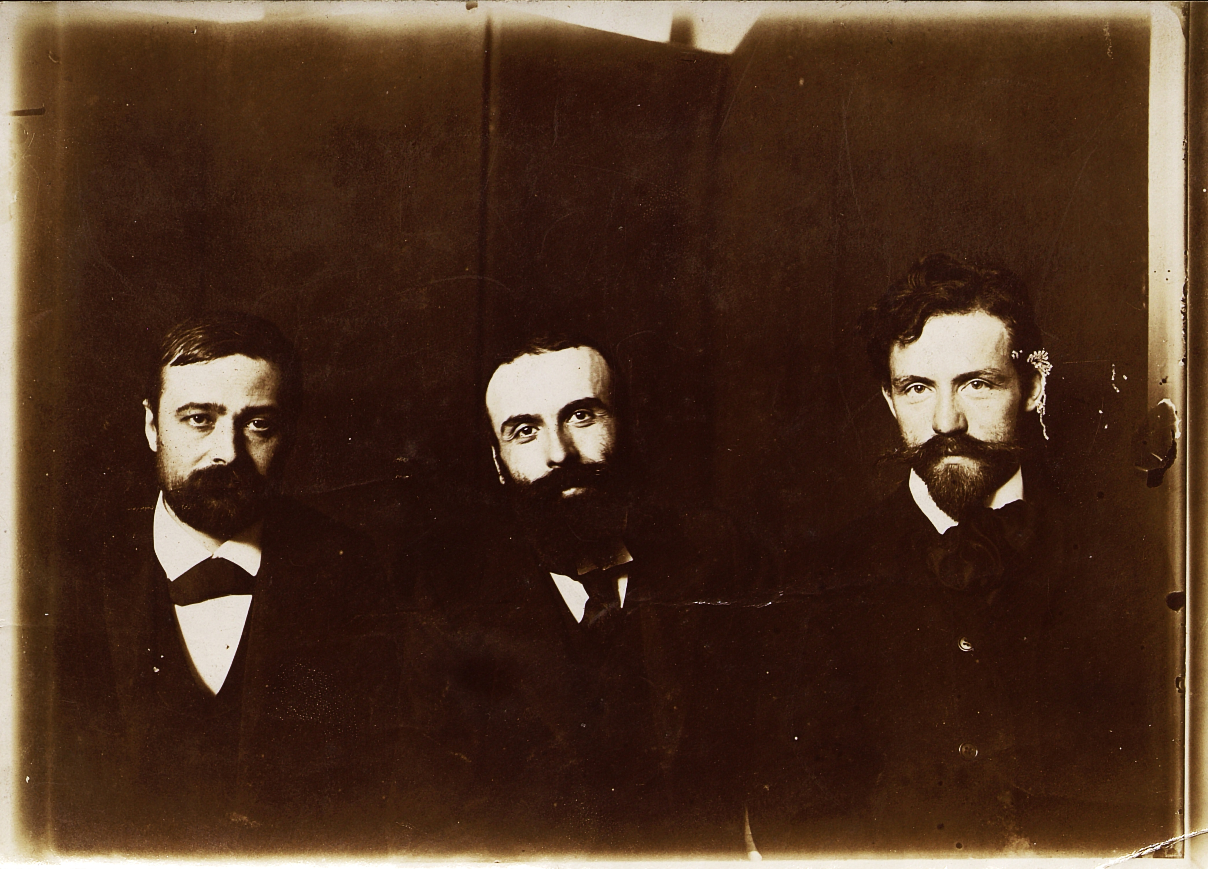 En 1900, Paul Bigot remporte le premier Grand Prix de Rome et séjourne à la Villa Médicis. La photographie rassemble Paul Bigot avec deux pensionnaires de la Villa Médicis. De gauche à droite : Paul Bigot, X, Paul Maximilien Landowski. Date : vers 1900 Auteur : anonyme Descriptif : photographie Dimension : 18 x 13 cm Fichier : UNICAEN_ PB_MRSH_A3_2 Localisation : MRSH Conditionnement : Boîte A